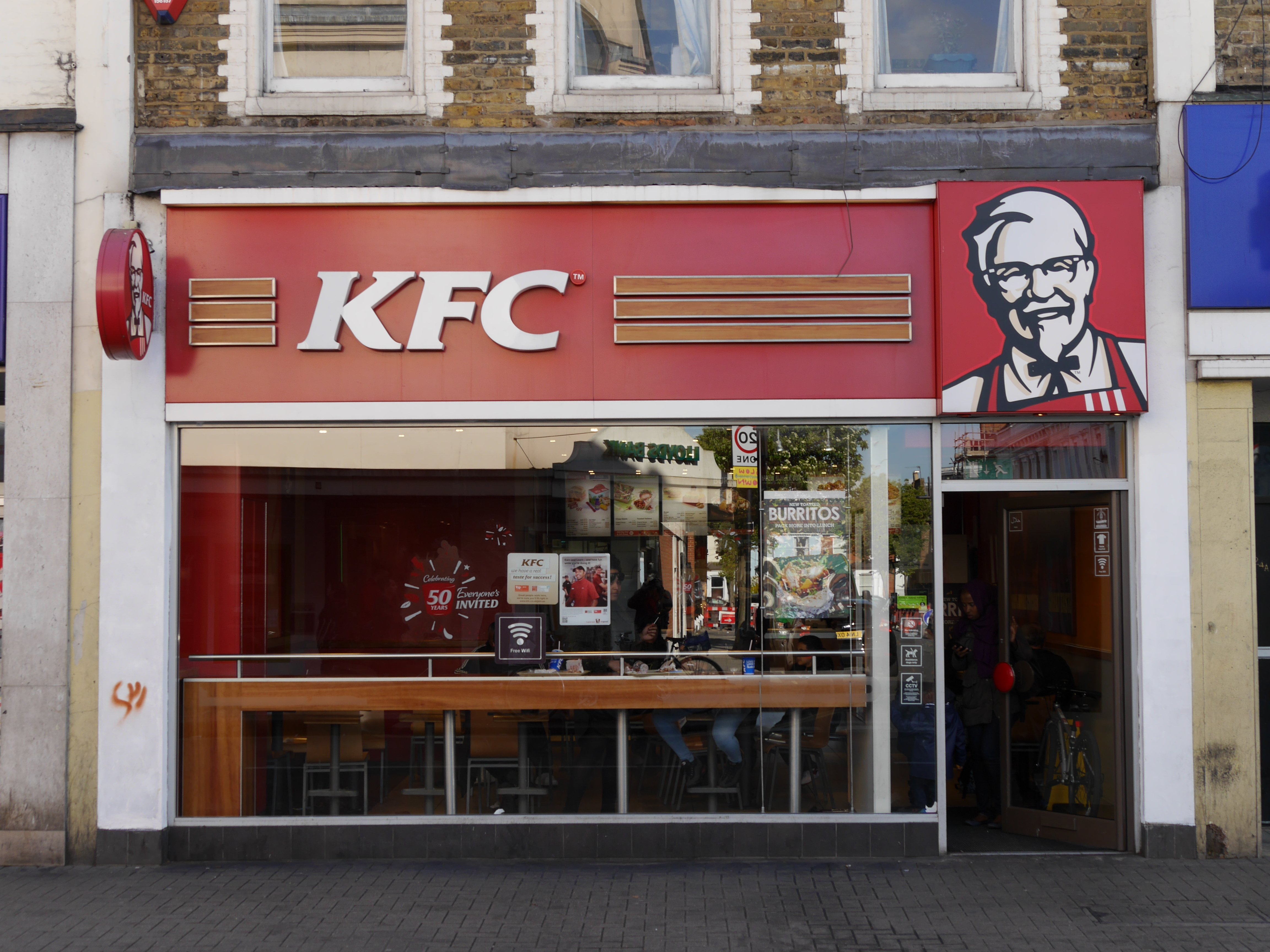 North End Road, Fulham, London